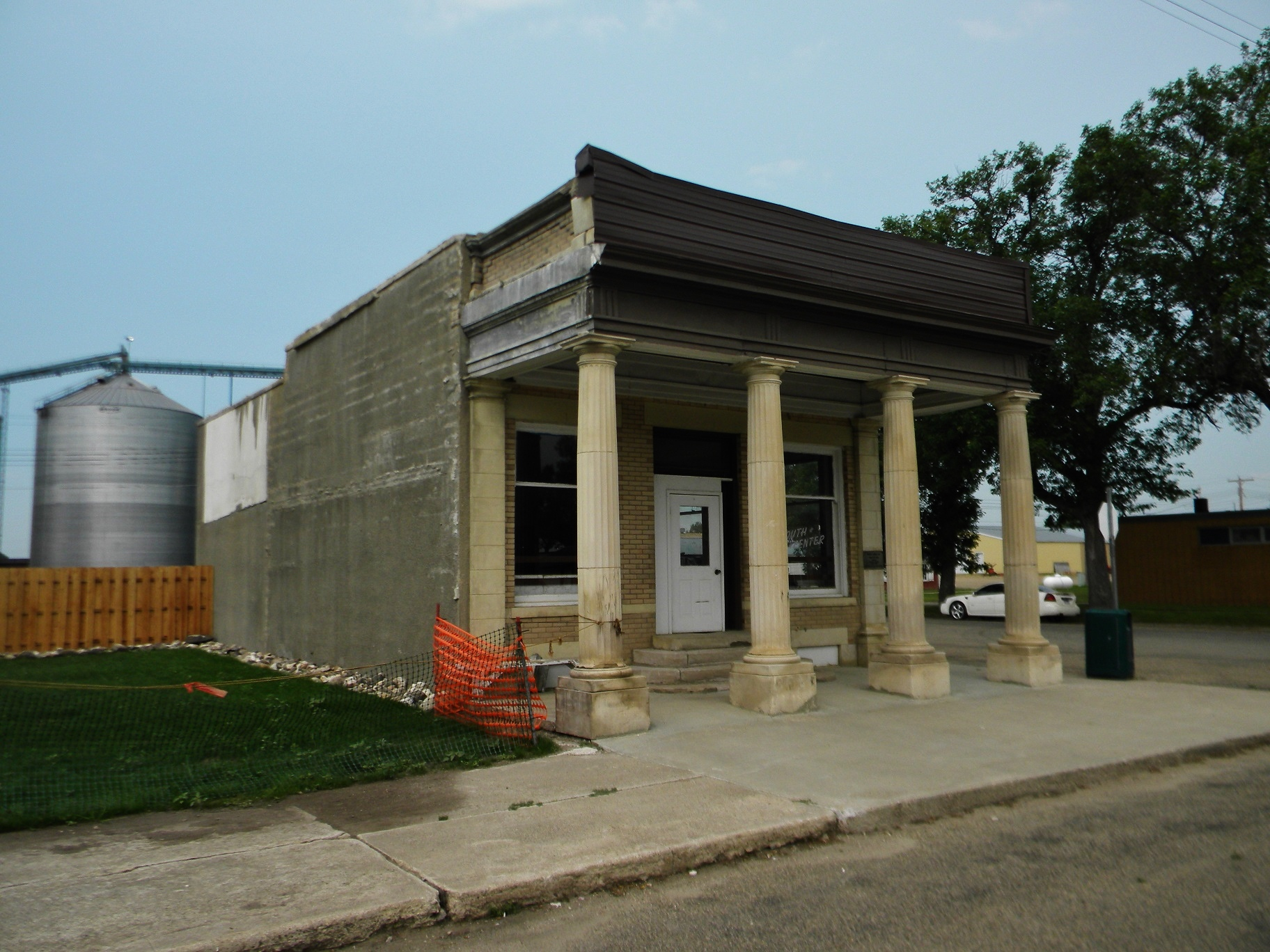 Bank of Bowdle Building is currently vacant.